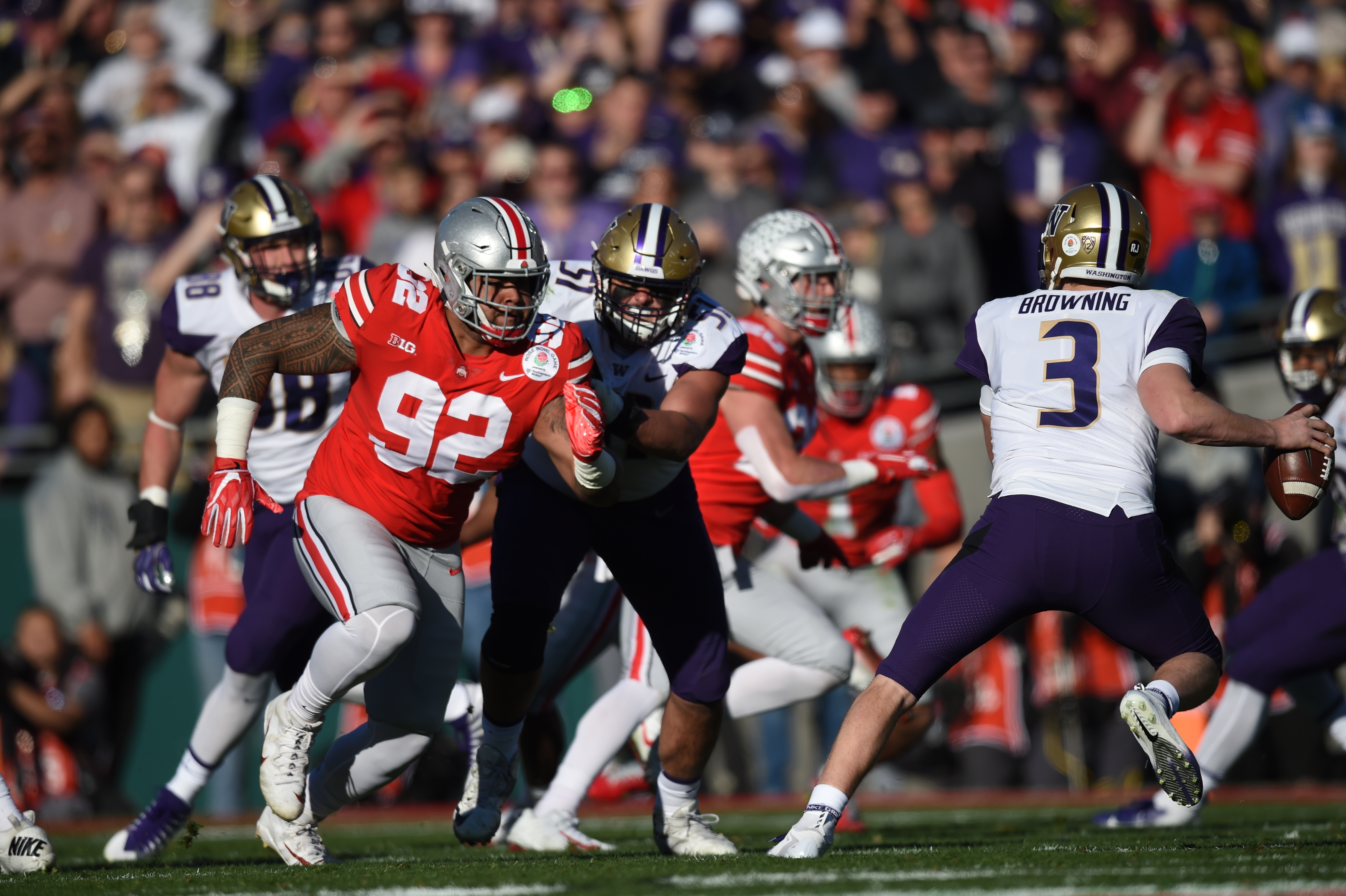 Washington quarterback Jake Browning runs against Ohio State defensive line Jaylee Johnson during the first half of the Rose Bowl. The Rose Bowl -- known in sports circles as the "Grandaddy of them All" -- featured a College Football Playoff semifinal between the Washington Huskies and the Ohio State Buckeyes in Pasadena, Calif., Jan. 1, 2019.